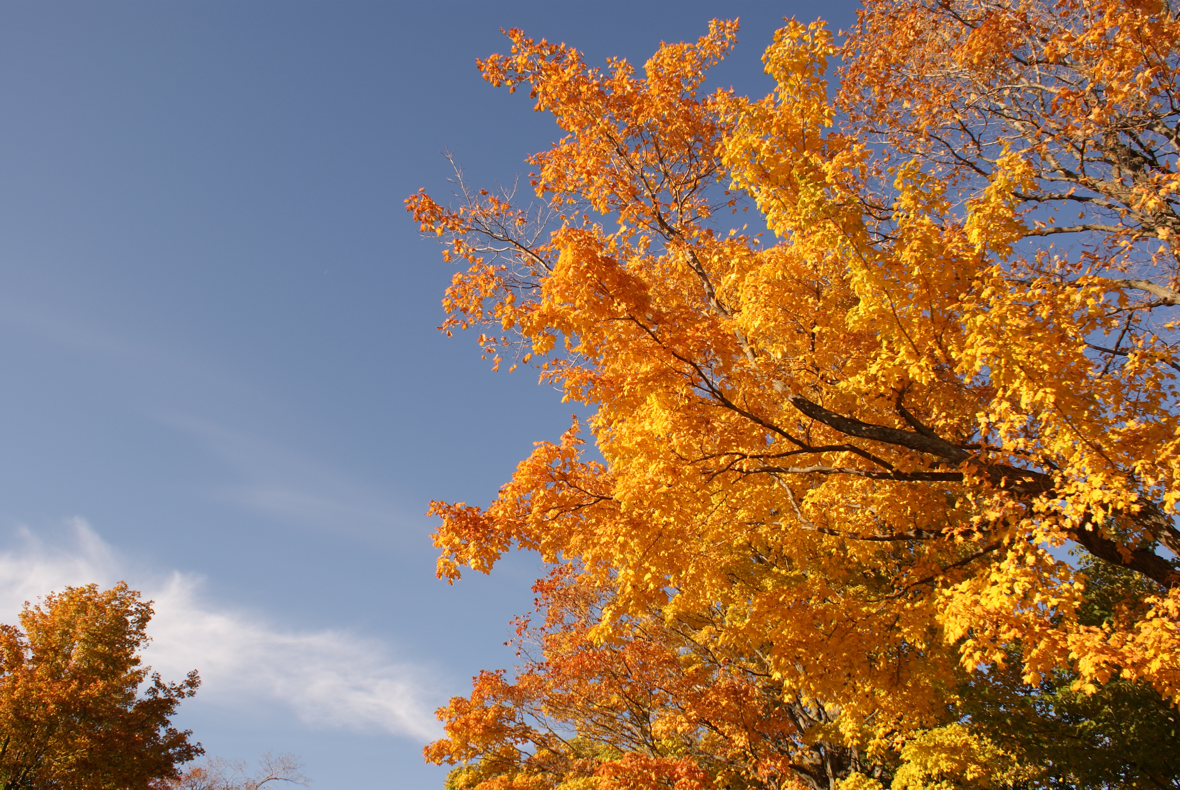 Vivid Autumn colours of a Maple Tree in Mono Cliffs Provincial Park, Ontario, Canada.